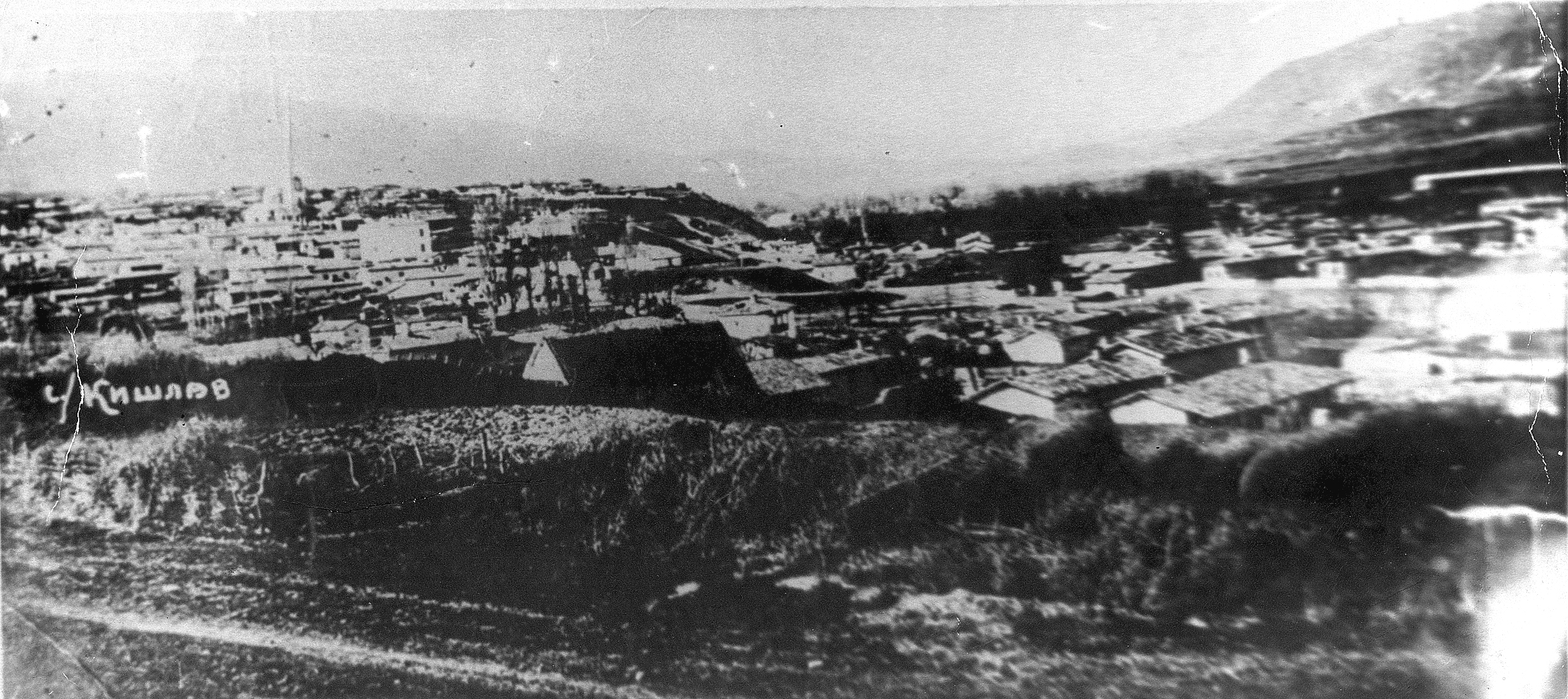 Kishlav, general view, 1914 year.